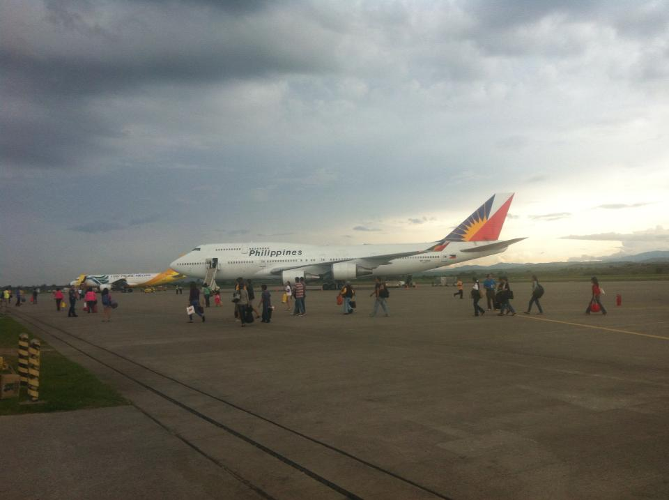 Busy afternoon operations